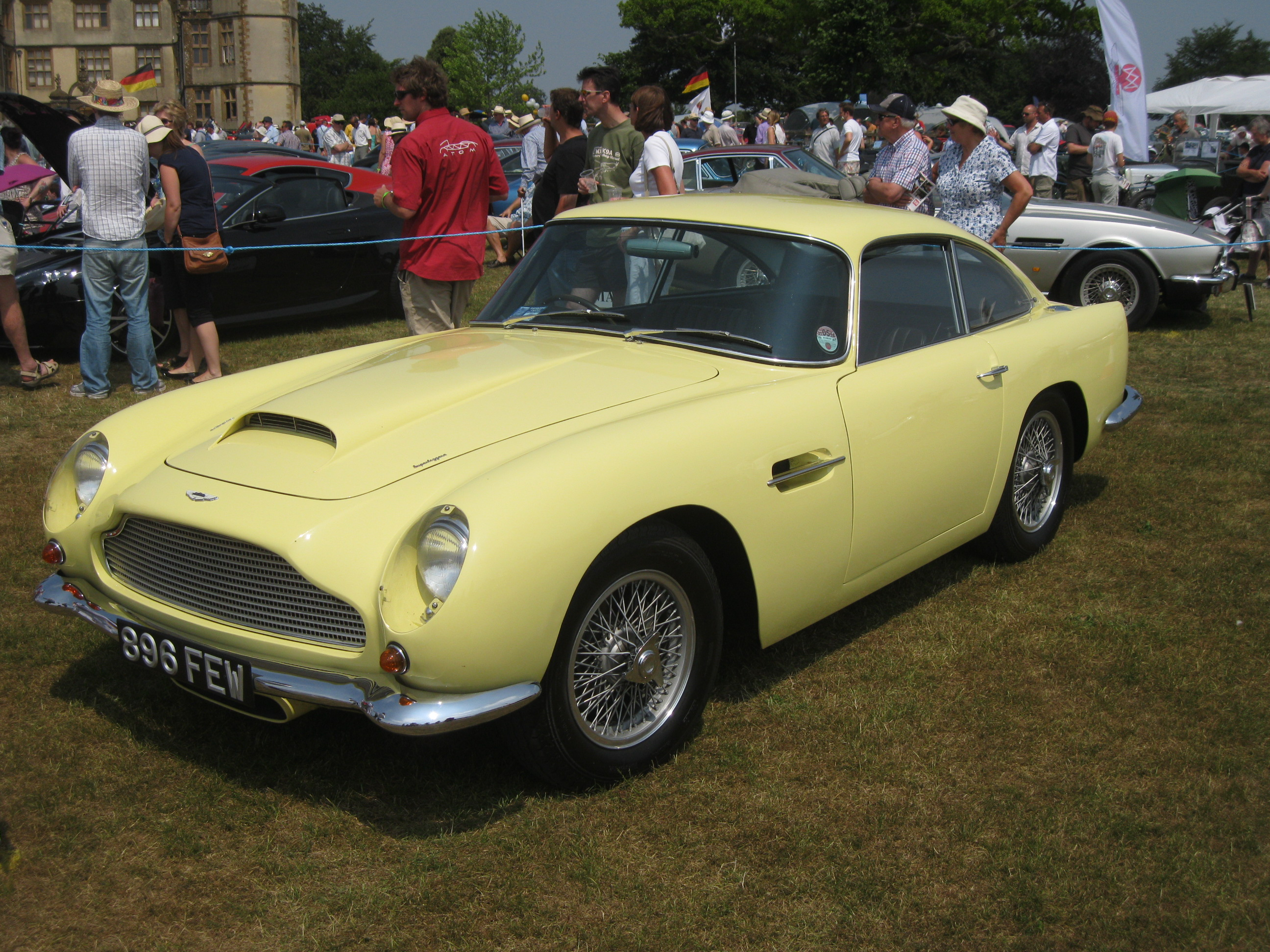 Beautiful Aston spotted at the Sherborne Castle Classic Car Show on 21st July 2013.